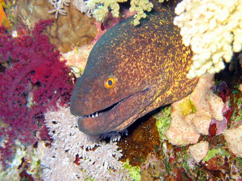 Yellow Margined Moray Eel (Gymnothorax spec. ?) in the Red Sea, near Sharm El Sheikh.